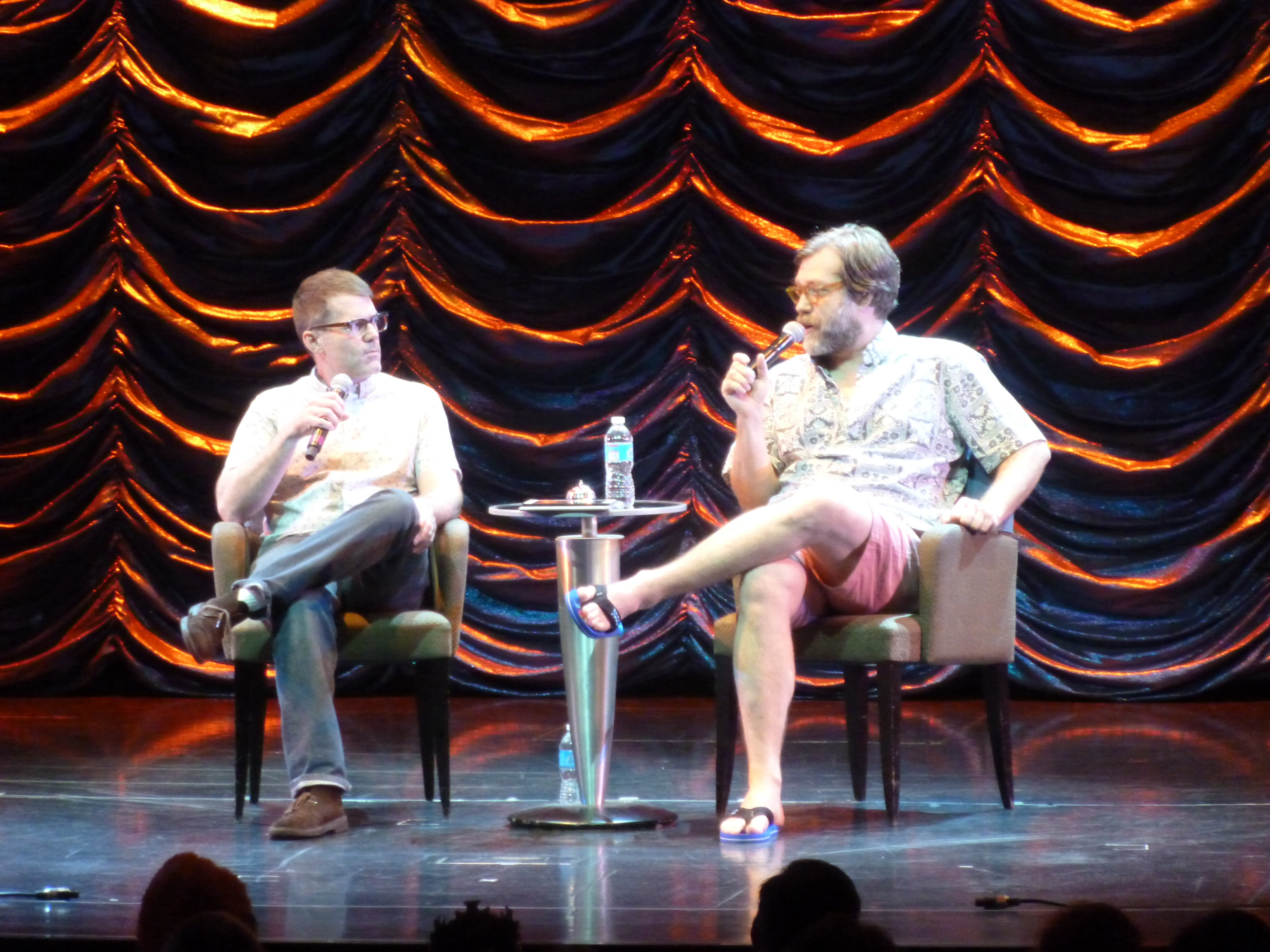 John Roderick and Merlin Mann recording their podcast live.